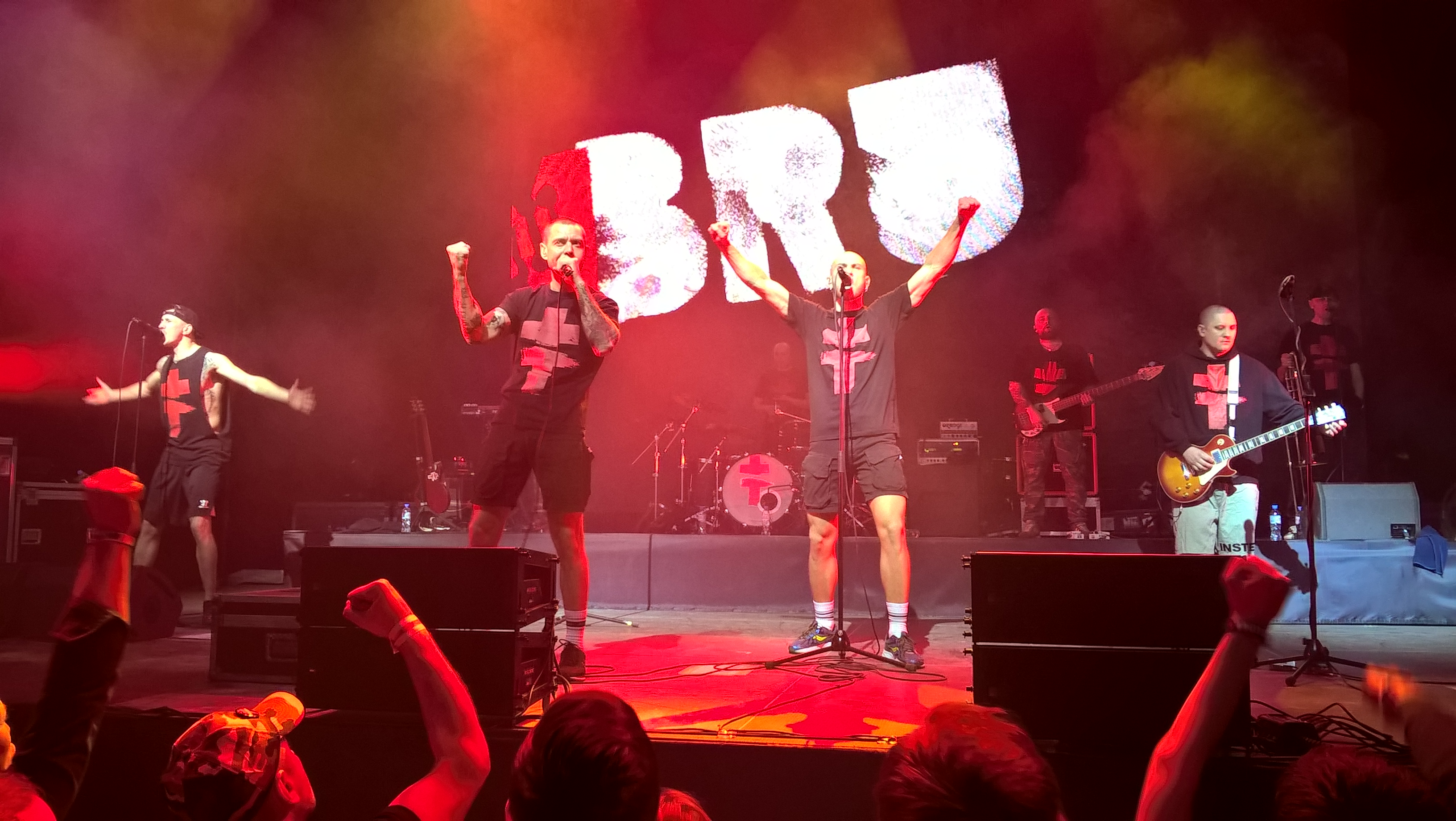 Brutto (band) in Baranavichy, 10-02-2017